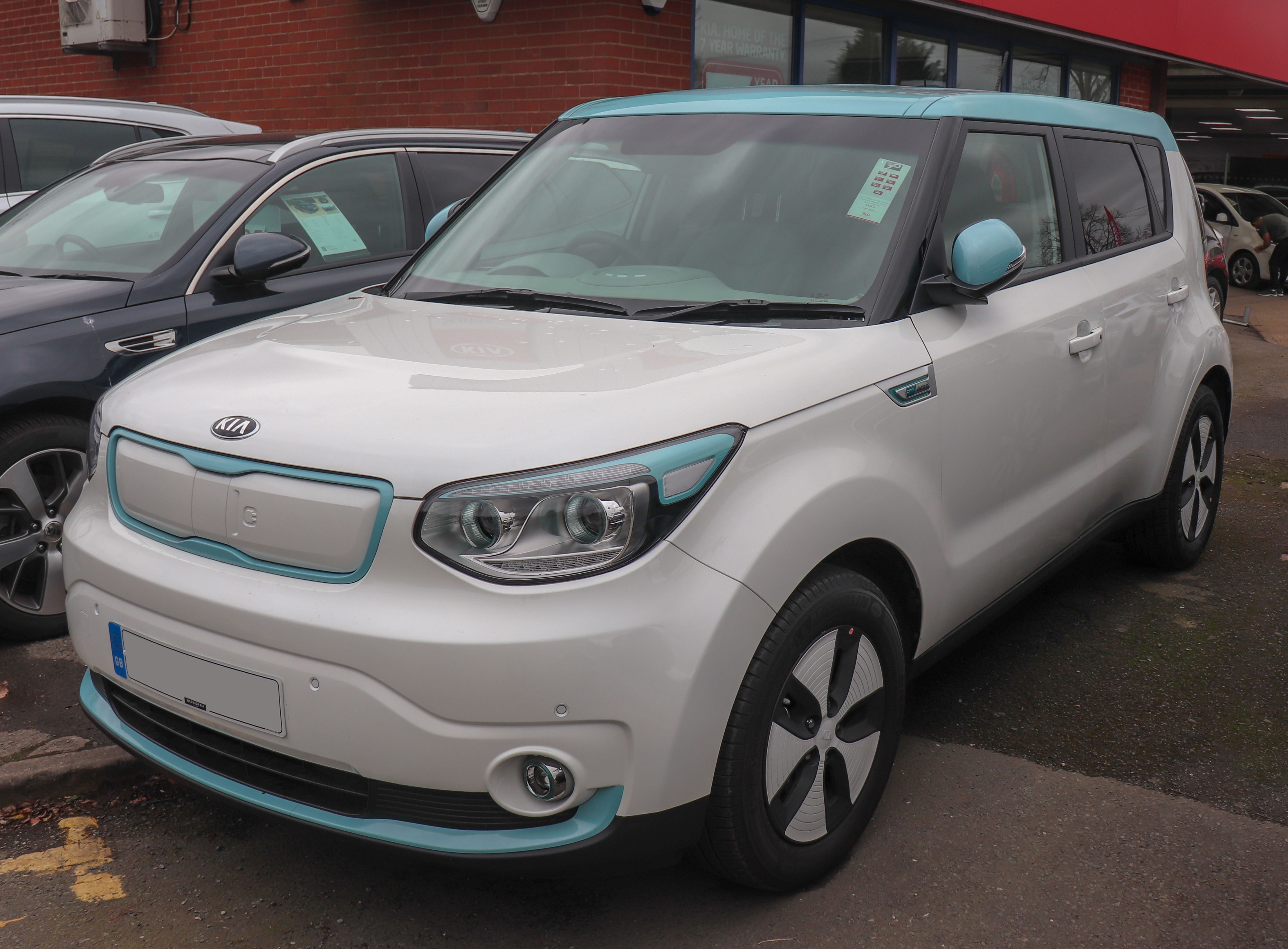 2019 Kia Soul EV Front Taken in Warwick